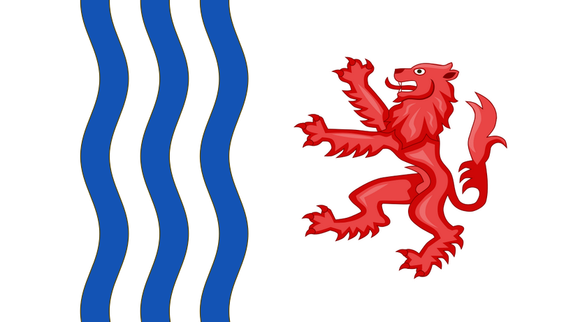 The flag of Nouvelle Aquitaine that has yet to be adopted